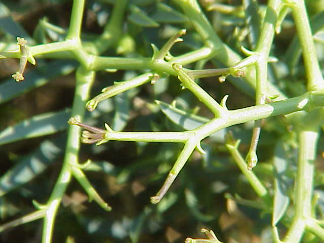 Species: Bupleurum spinosum Family: Apiaceae Image No. 2